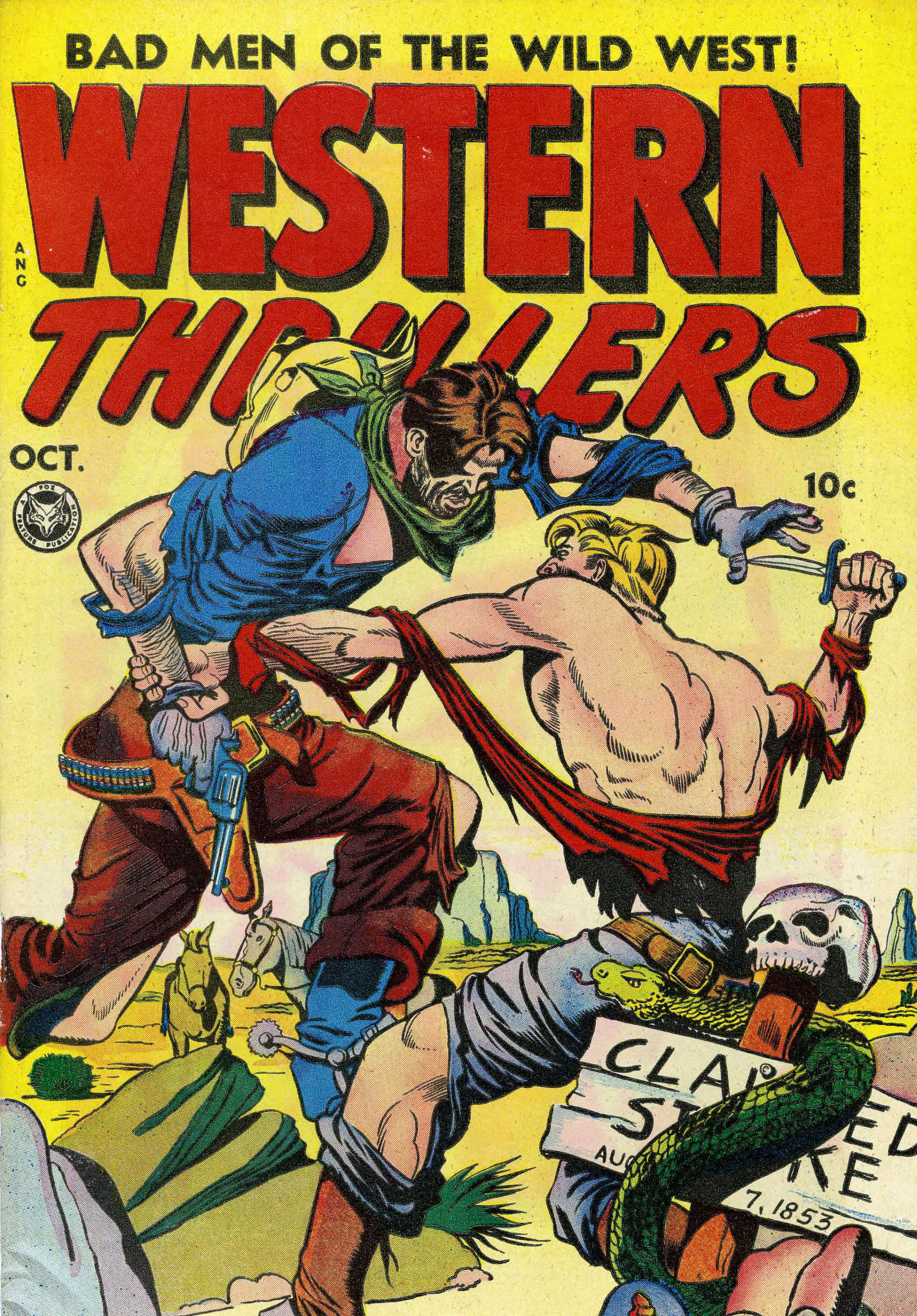 Cover of Western Thrillers #2, Fox Feature Syndicate